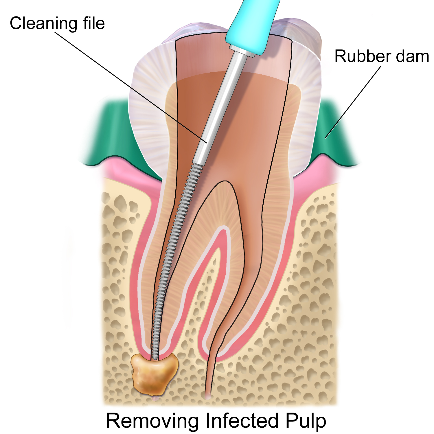 Root Canal. See a full animation of this medical topic.